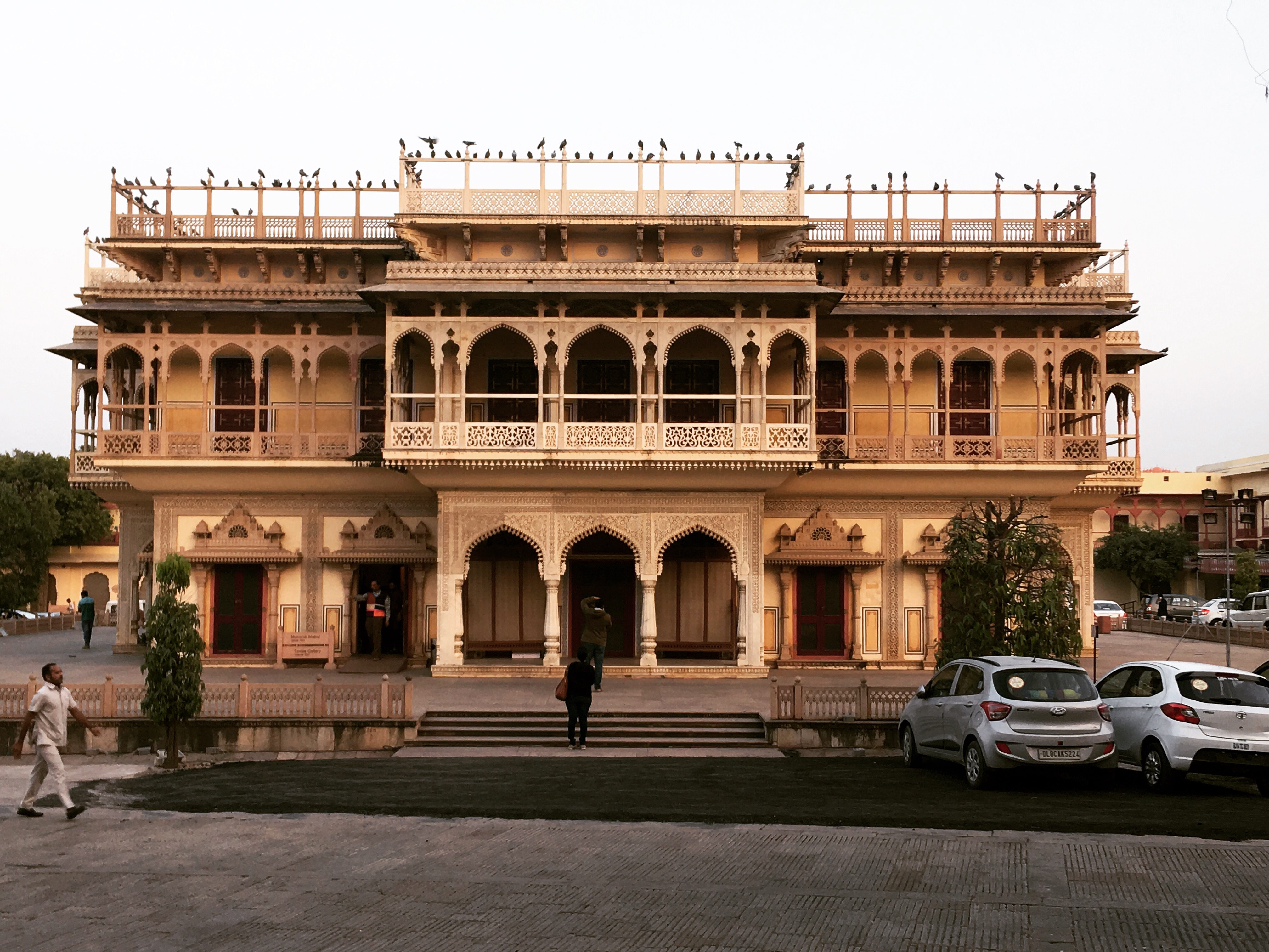 The City Palace, Jaipur was established at the same time as the city of Jaipur, by Maharaja Sawai Jai Singh II, who moved his court to Jaipur from Amber, in 1727.